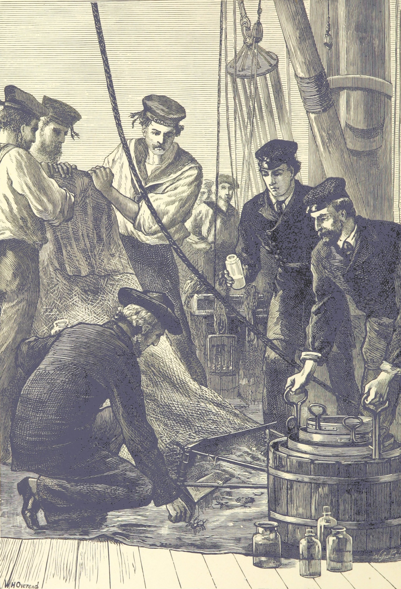 During the Challenger expedition, members of the crew examine creatures dragged up by the Challengers nets.